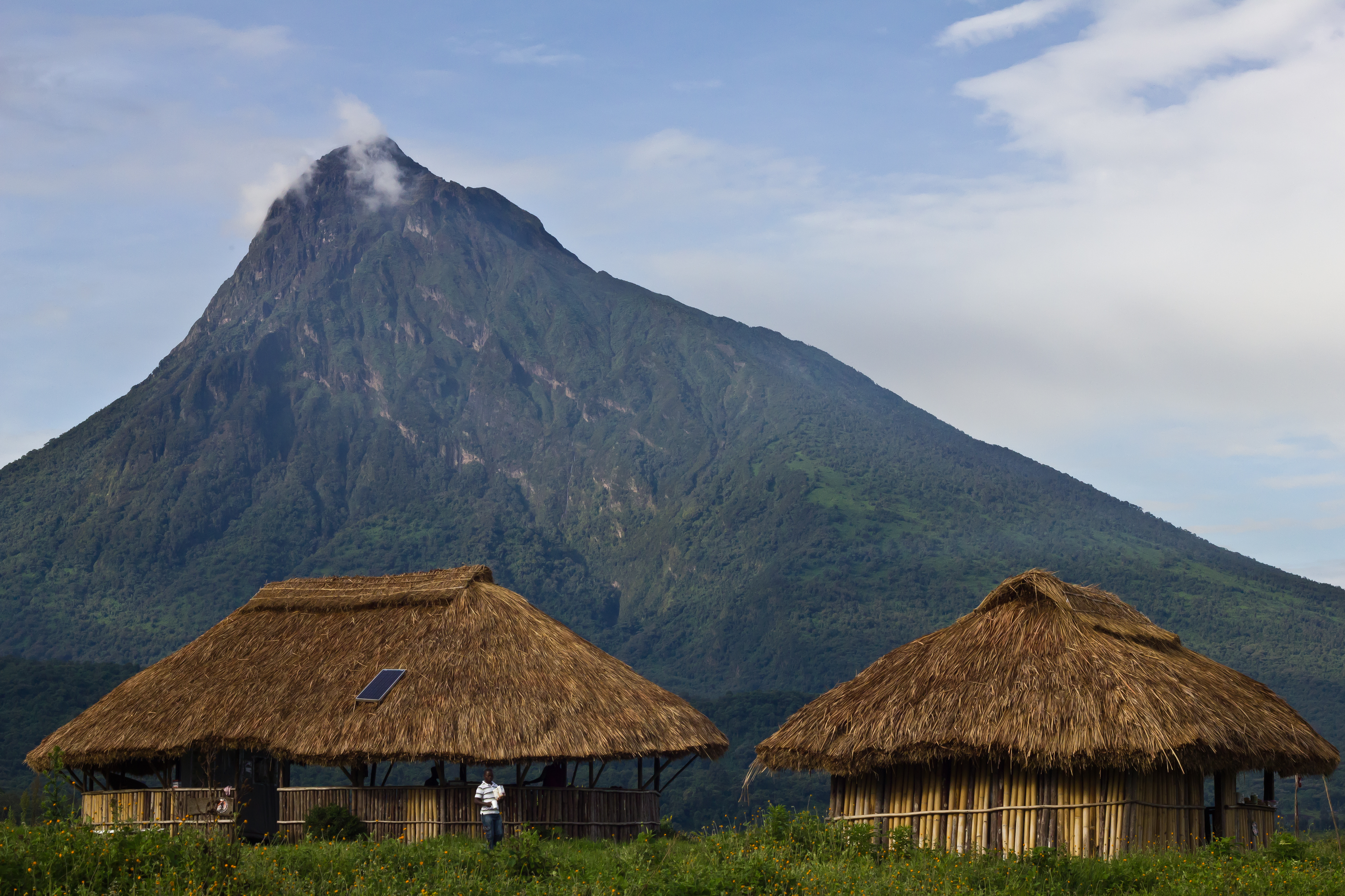 Bukima Patrol Post Tented camp in Eastern DRC Virunga National Park, with Mt Mikeno visible behind.